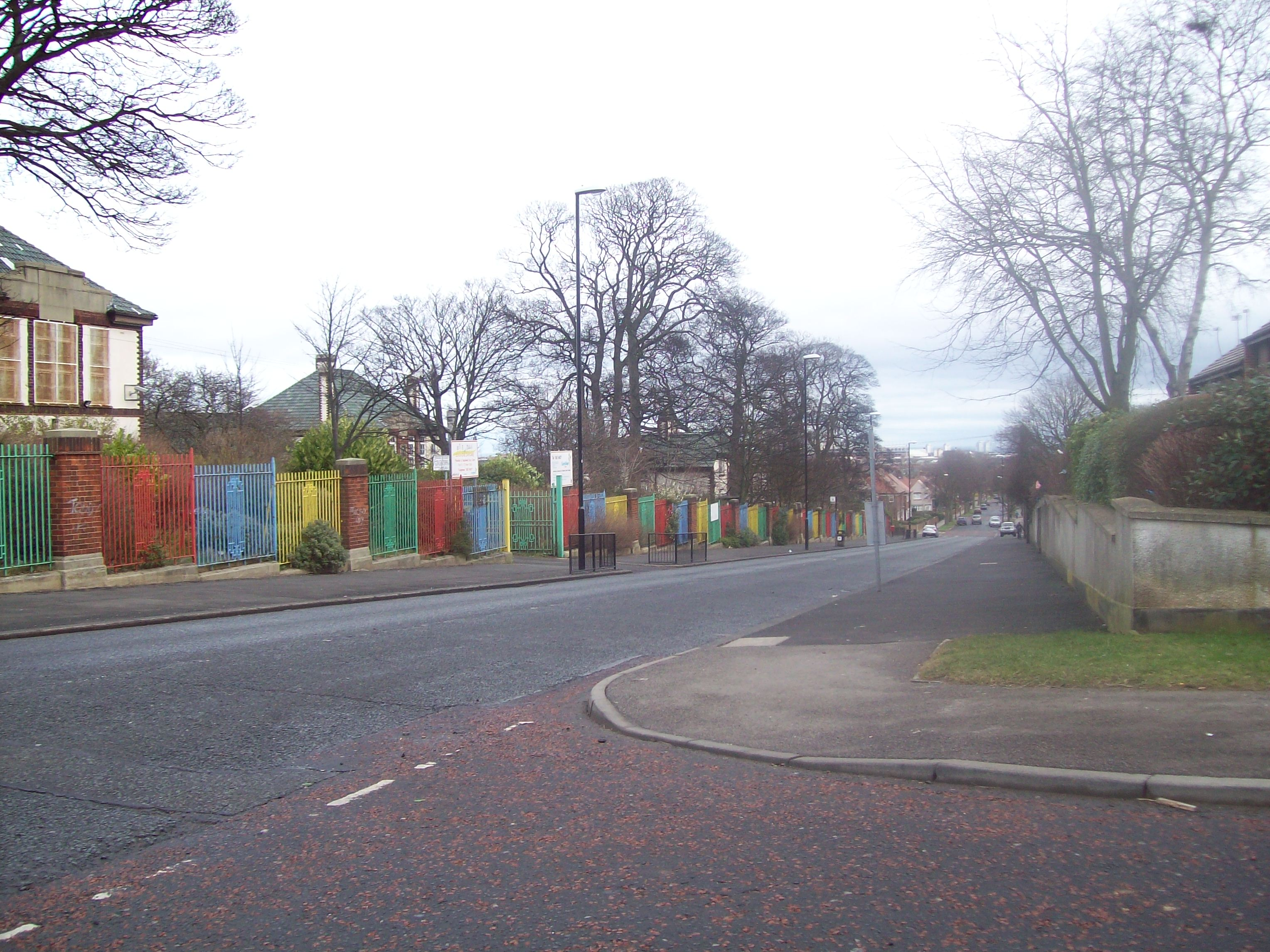 Low Ford, Sunderland, England